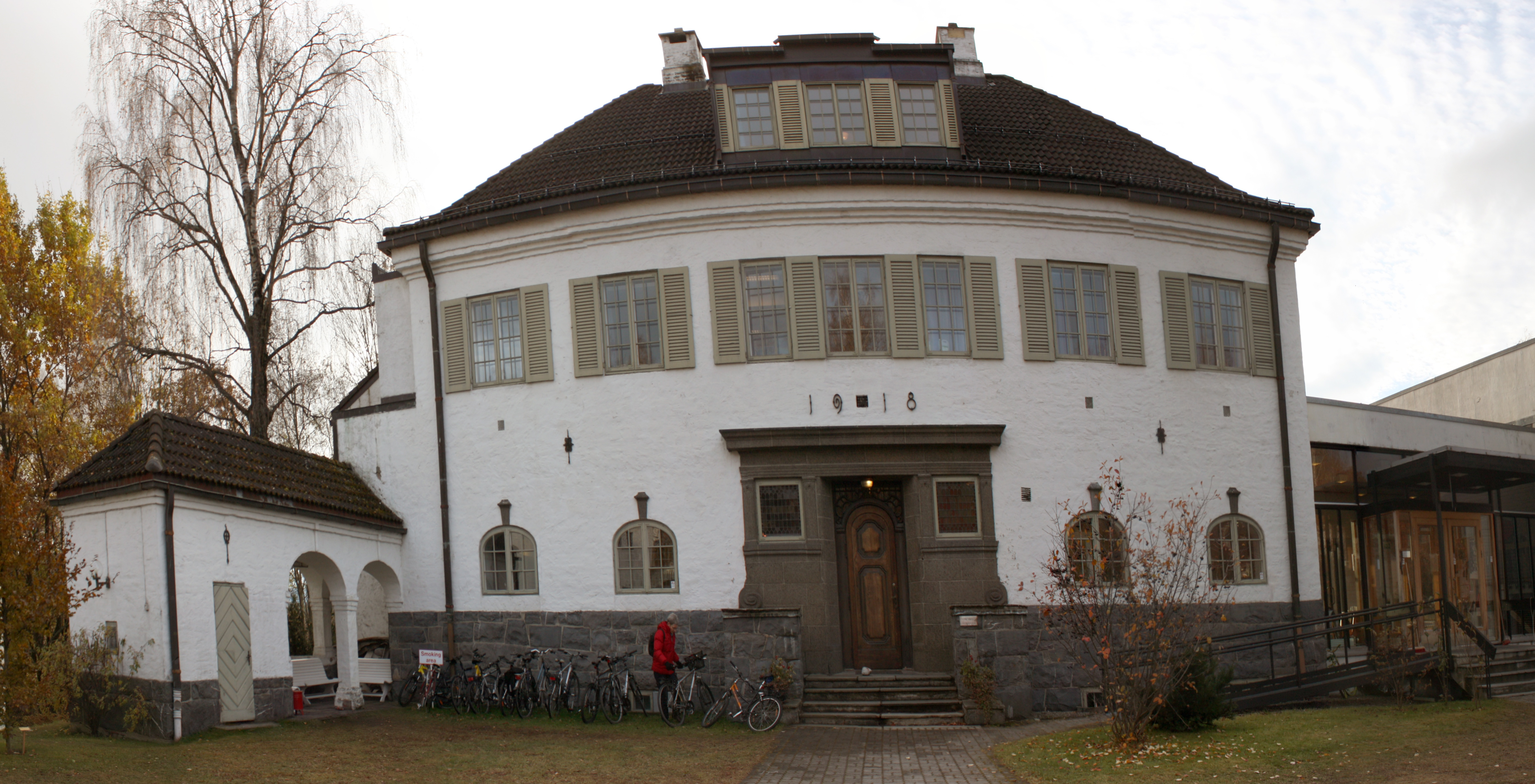 Main building of the Nansen Academy